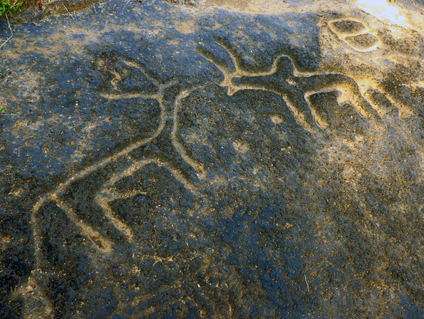 Rock cut engraving found in the Indian state of Goa dating back 8000 BC